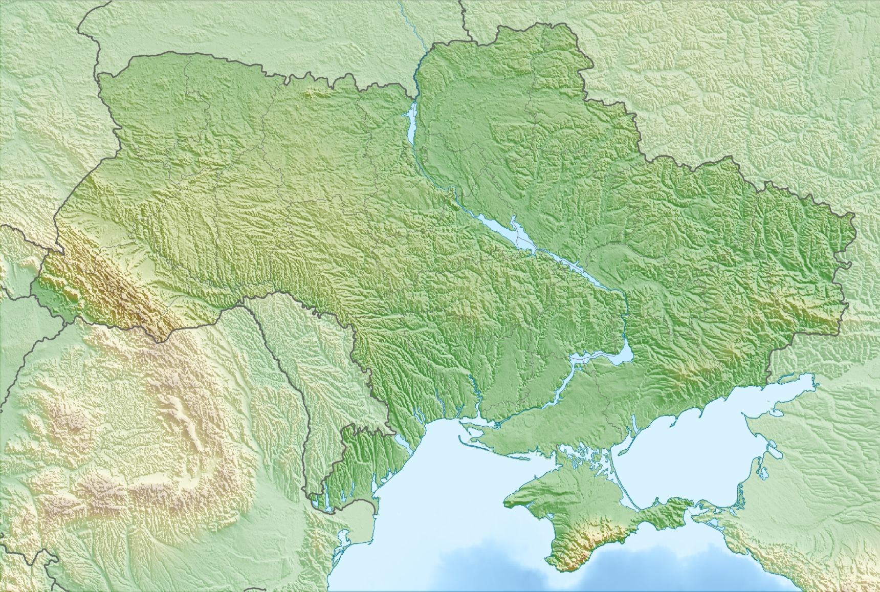 Physical location map of Ukraine Equirectangular projection, N/S stretching 150 %. Geographic limits of the map: N: 52.7° N S: 44.1° N W: 21.5° O O: 40.7° O